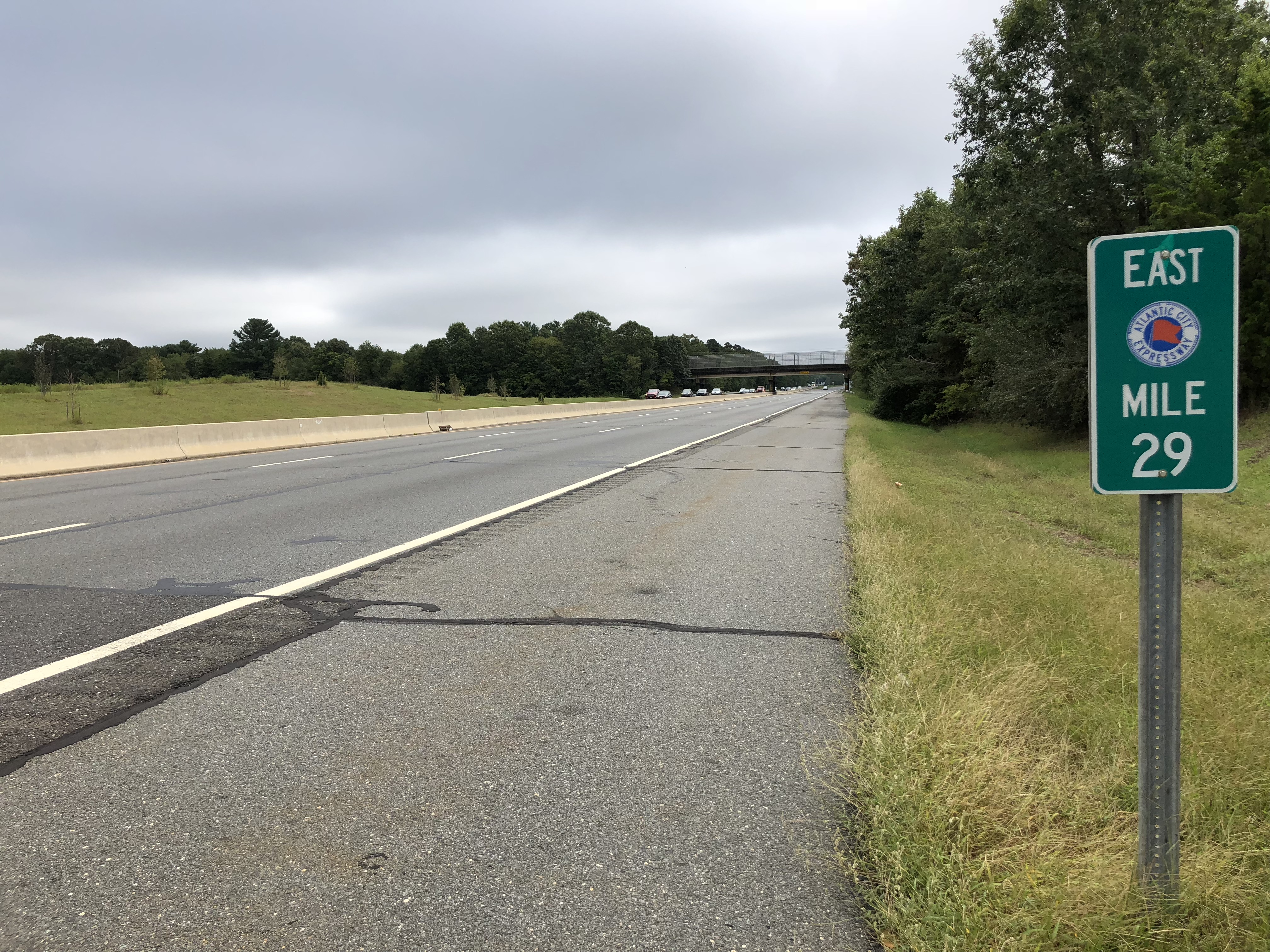 View east along New Jersey State Route 446 (Atlantic City Expressway) just west of Exit 28 in Hammonton, New Jersey